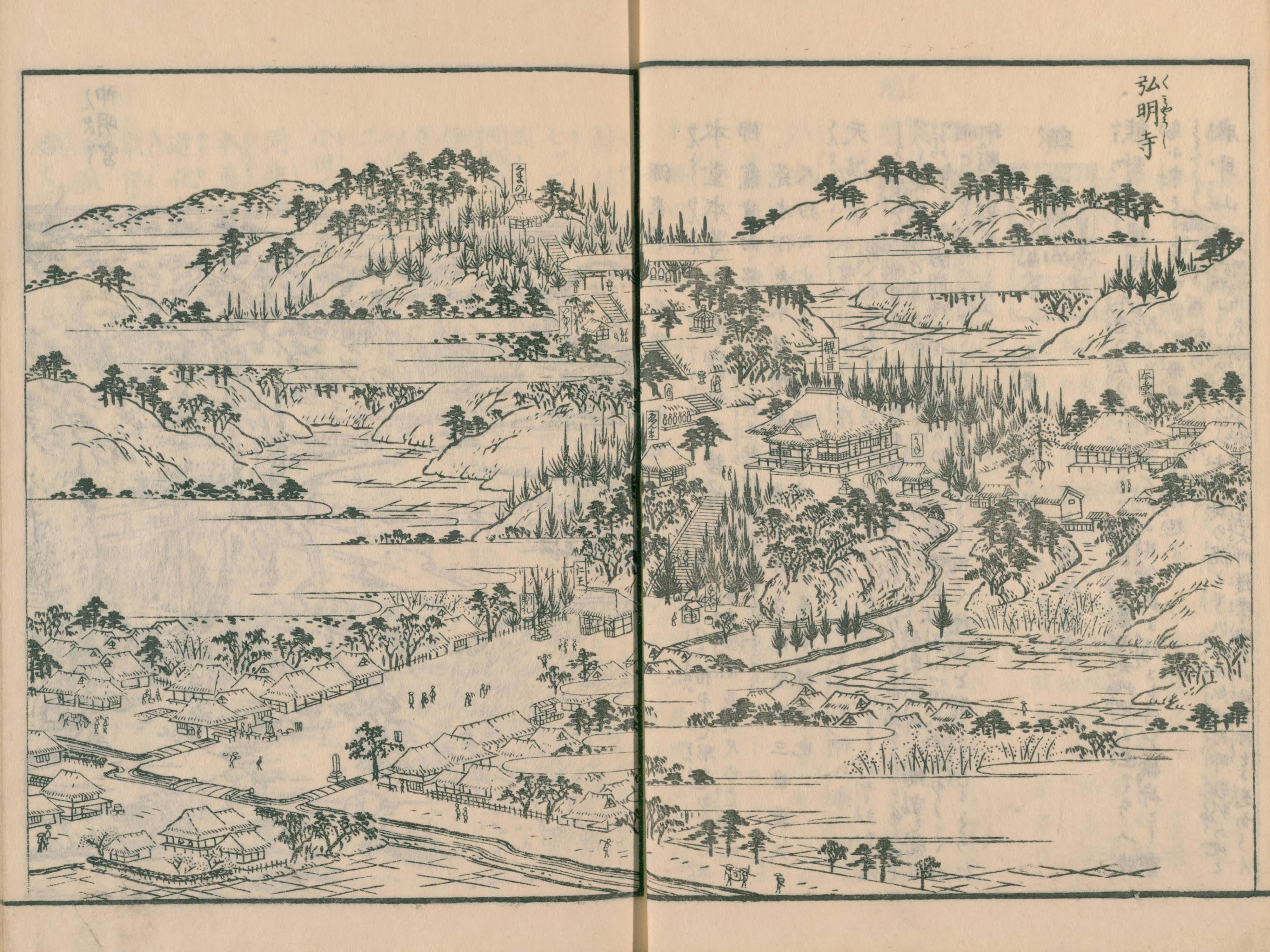 Gumyō-ji temple, Yokohama in Edo Meisho Zue vol. 2 (book 6)